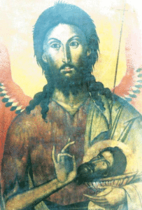 Icon of Saint John the Baptist